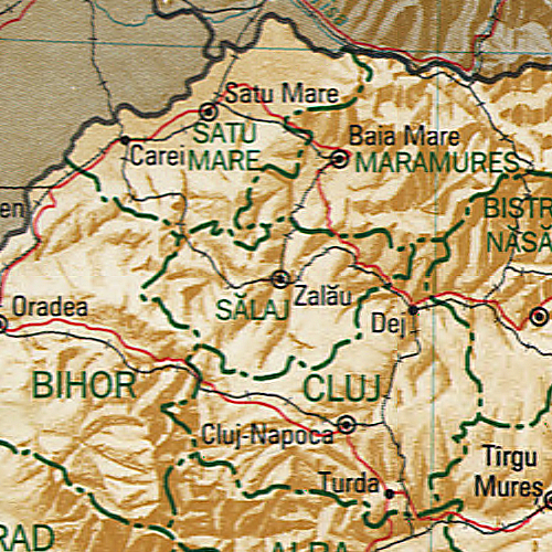 Map of Sălaj County, Romania.